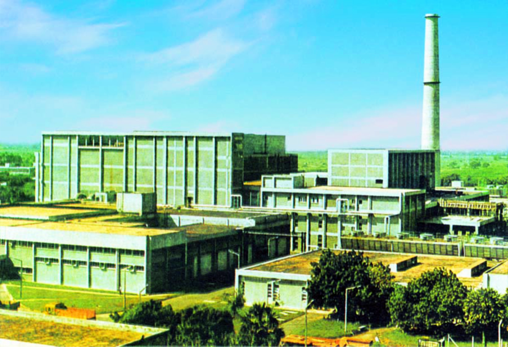 Reprocessing Plant at Kalpakkam, Tamil Nadu, India